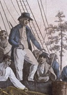 published by B B Evans